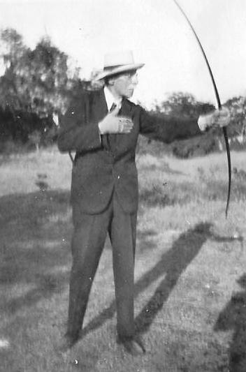 The retired Sir Gilbert in 1925.